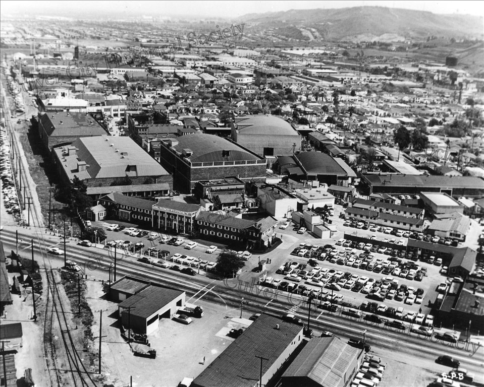 Photograph of Hal Roach Studios (1919–1963), 8822 West Washington Boulevard, Culver City, California More information Digital images for sale by the Culver City Historical Society